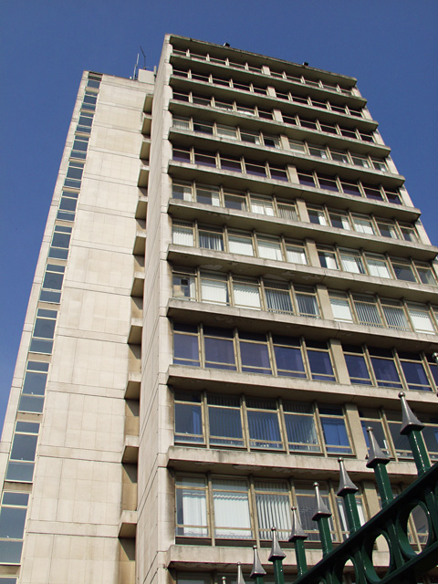 Kingston House tower, Hull Office block on Bond Street. Its eastern side seen here from New Garden Street.